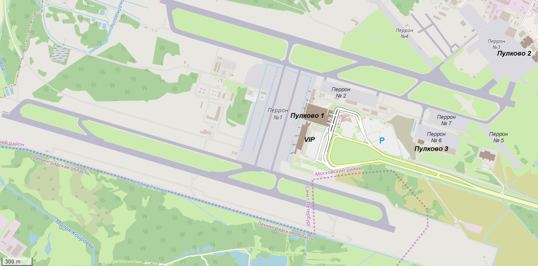 Location of Pulkovo airport. Borders of Saint Petersburg and Leningrad Oblast before borders' changing